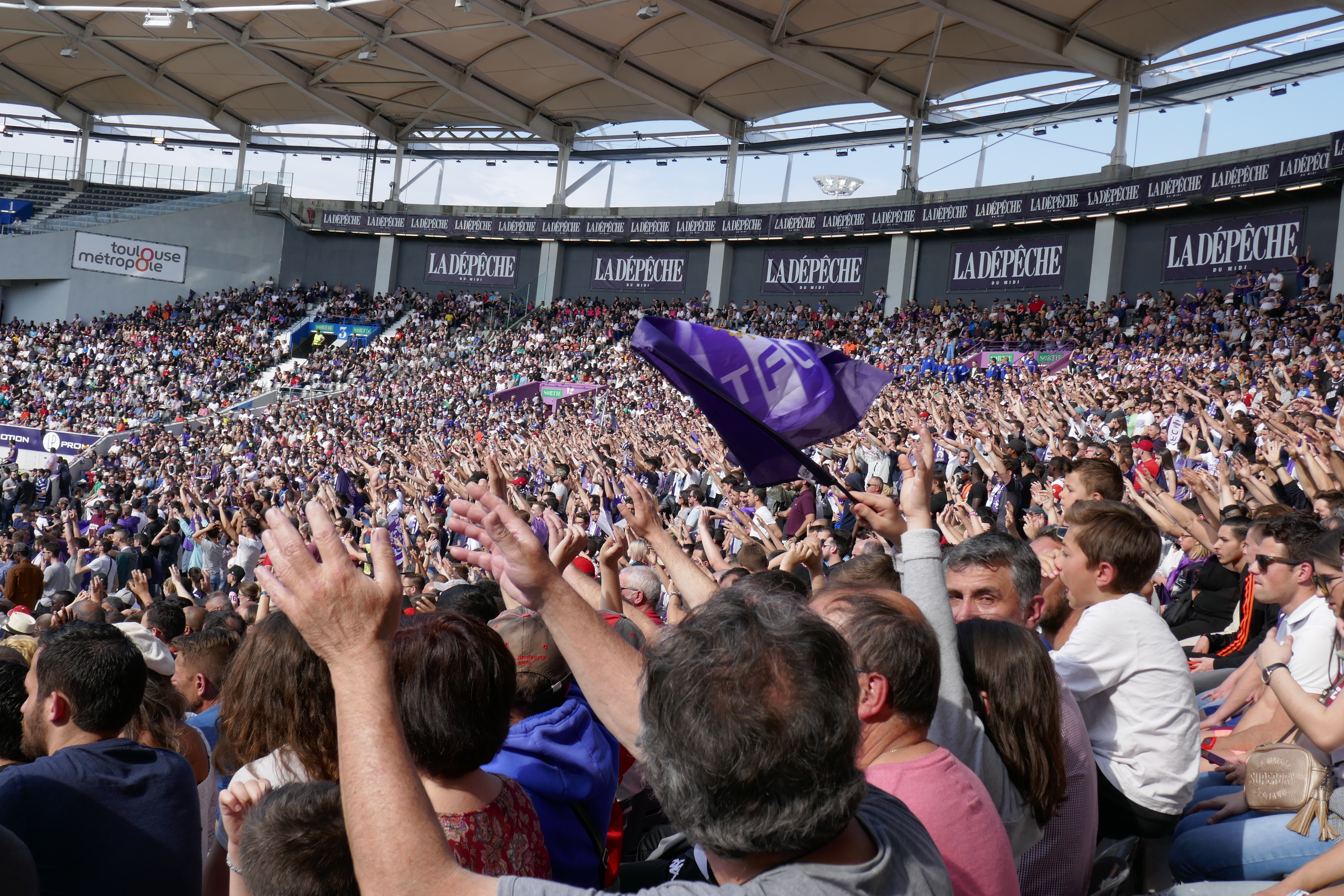 Brice Taton stand of the Stadium of Toulouse, driven by the IT 93 group, during the match Toulouse FC - Lille OSC on the 6th May of 2018 played for the 36th legs of the 2017-2018 Ligue 1 season.